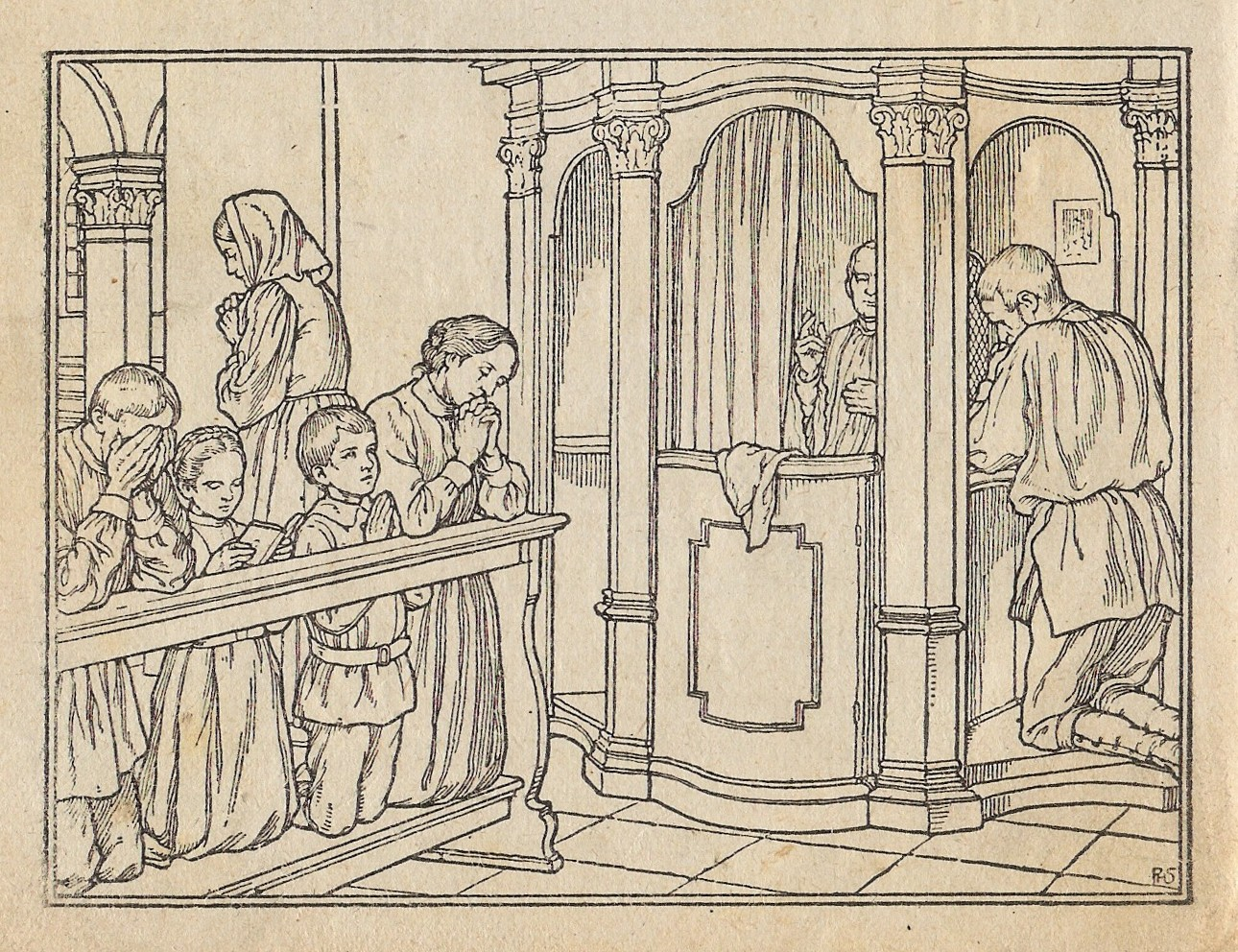 Confession.